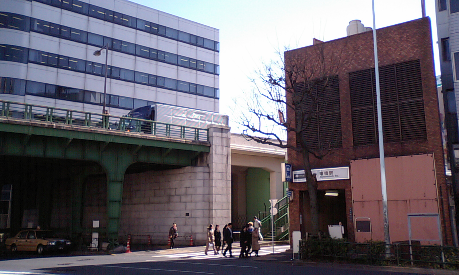 Akebonobashi station entrance and Akebonobashi bridge